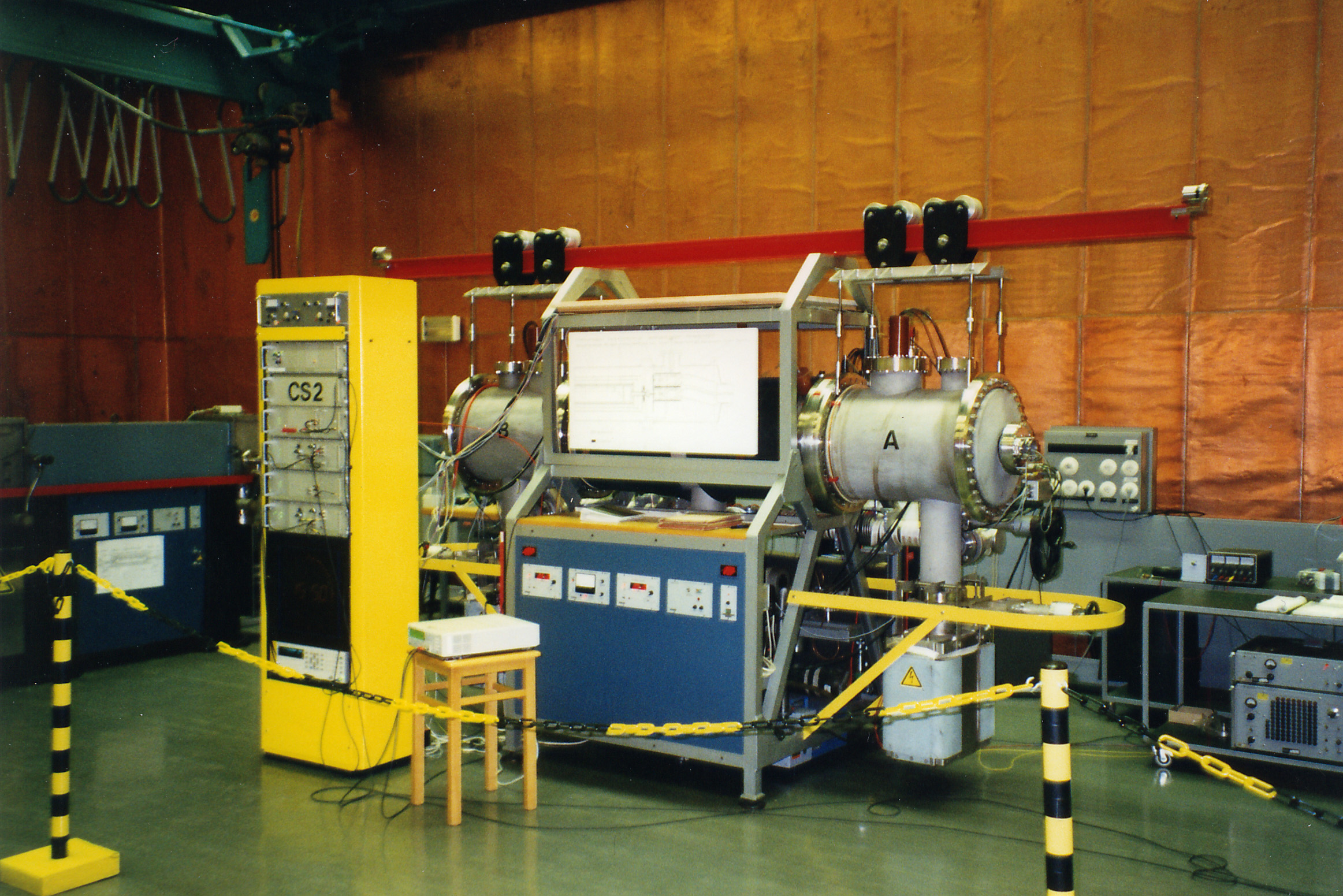 Atomic clock CS2 at the Physikalisch Technischen Bundesanstalt, Braunschweig. CS2 provides the German national legal time standard. Open house day 1997.